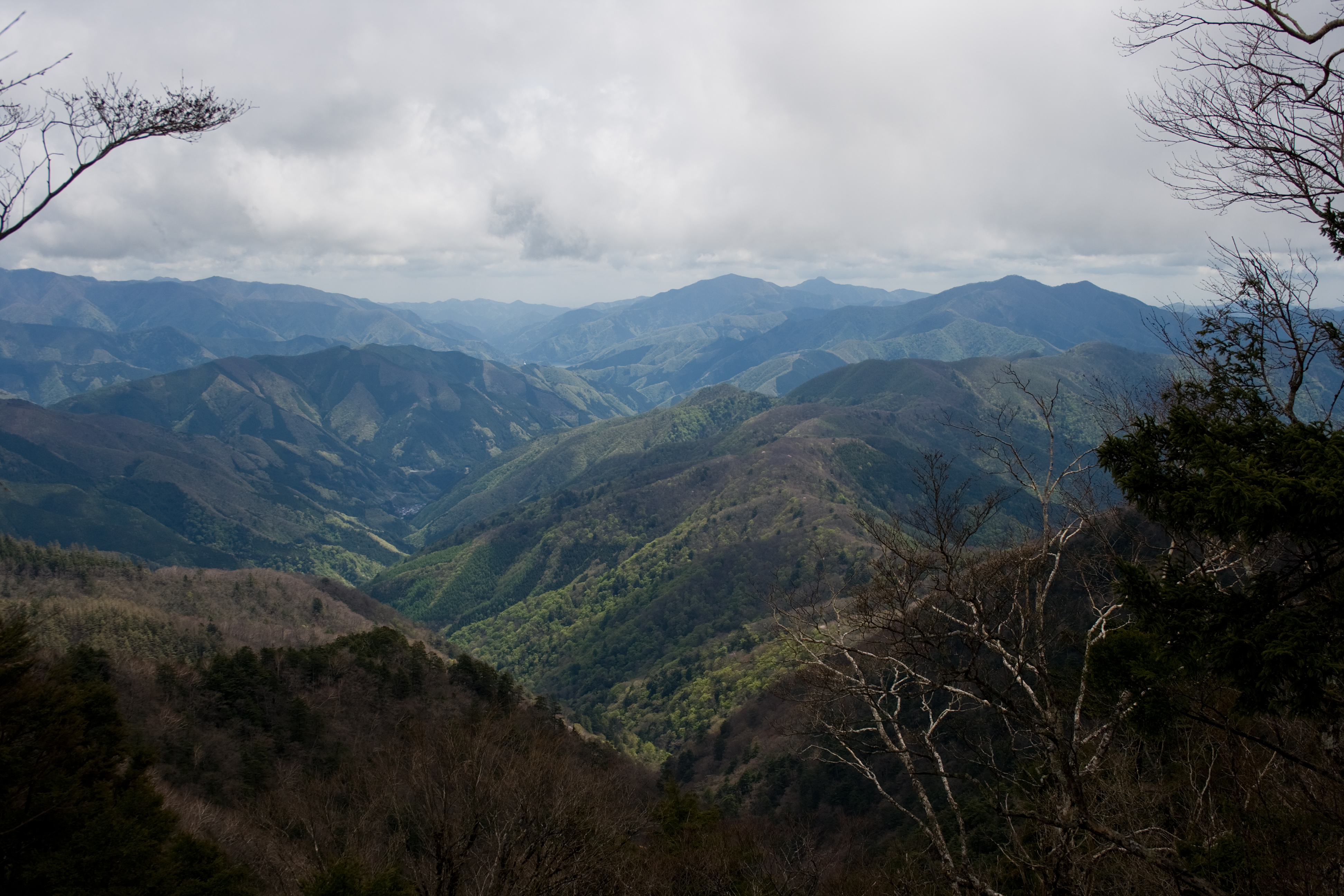 Mts.Okutama, as seen from Daibosatsu-Pass, Yamanashi-Tokyo, Japan.